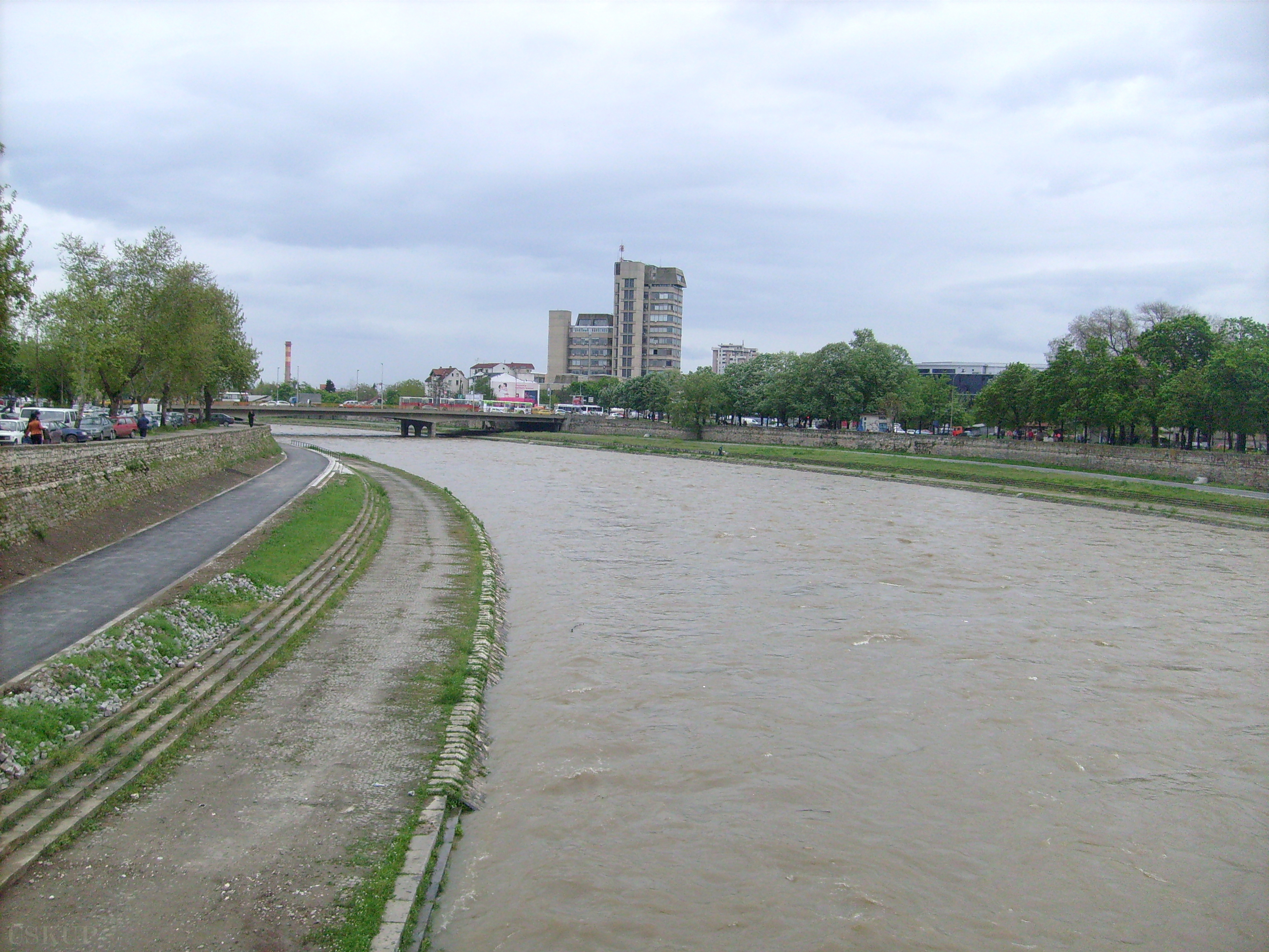 Vardar River: in Skopje in the Fatih Sultan Mehmet Bridge, while flowing from the immediate vicinity. (Skopje / Republic of Macedonia)